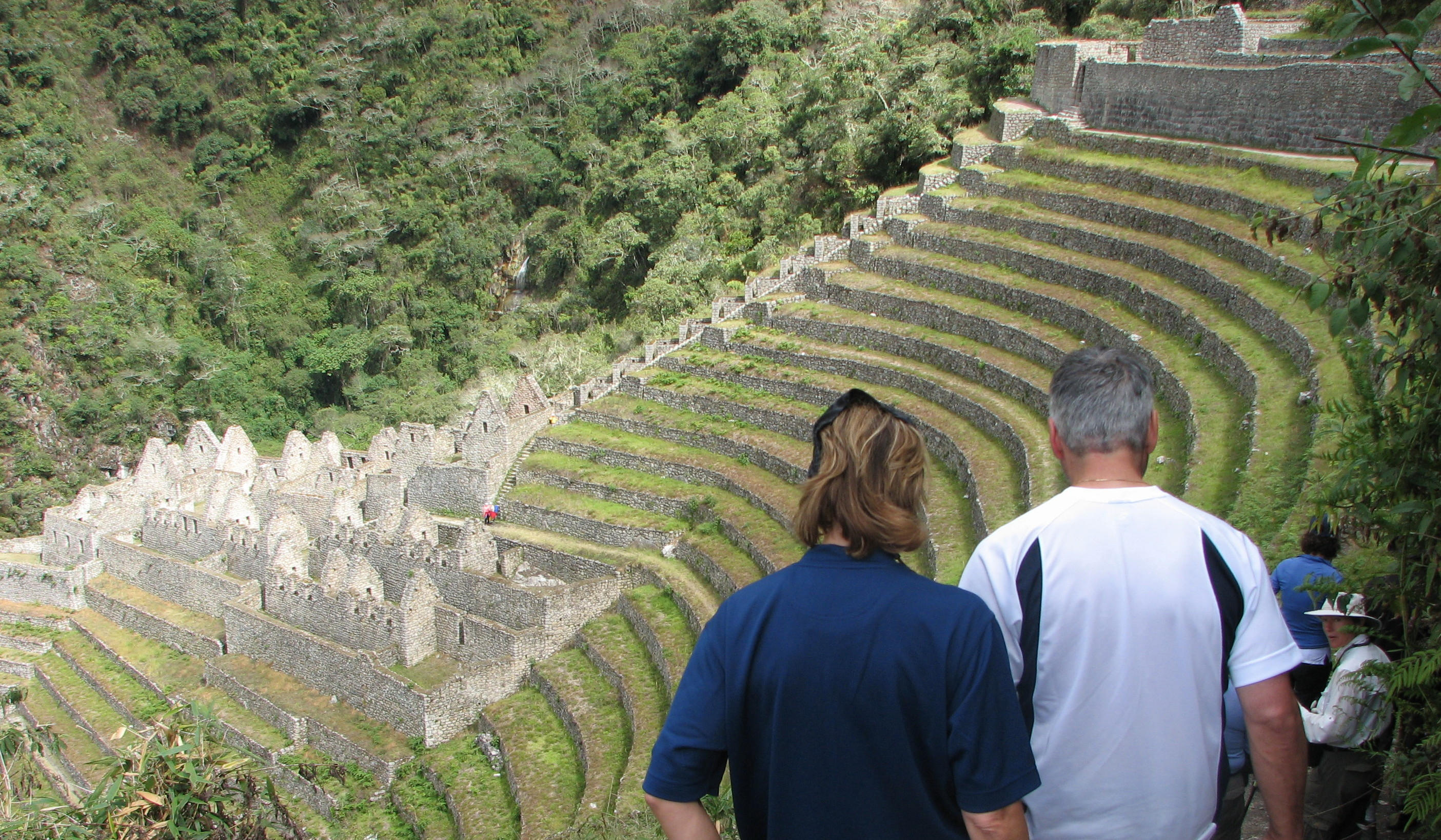 Winaywayna, Inca Trail, Peru